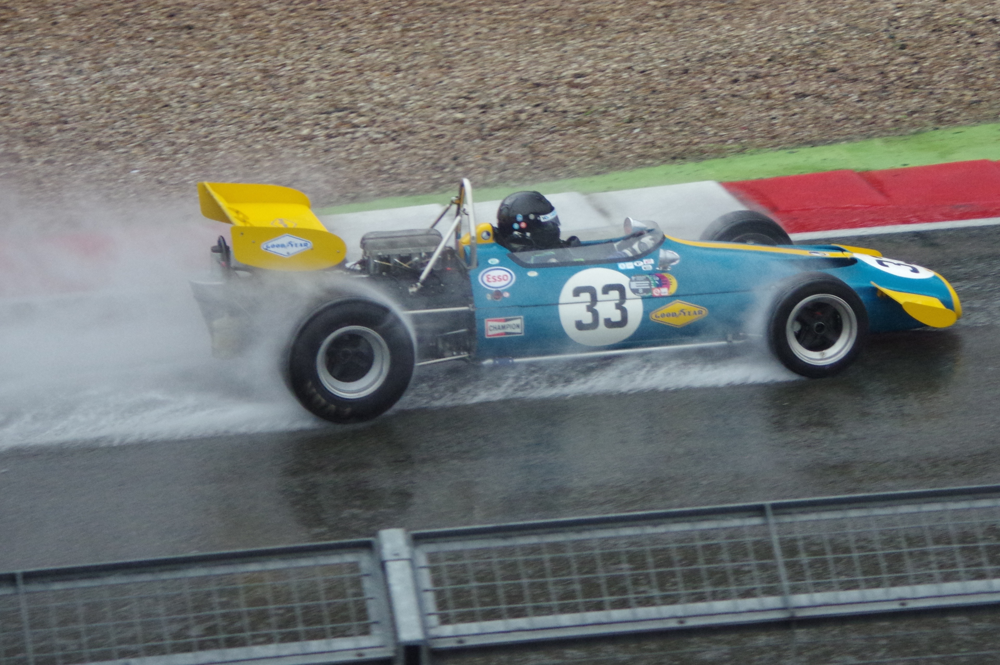 FIA Historic F1, Silverstone Classic 2015